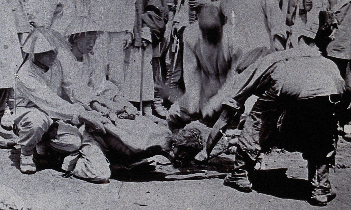 A Chinese prisoner, possibly a Boxer, being beheaded infront of a crowd of Chinese. European officials watch over the procedure Iconographic Collections Keywords: Execution; Chinese; Asian Continental Ancestry Group; Boxer Rebellion; China; Decapitation; Qing Dynasty; Punishment